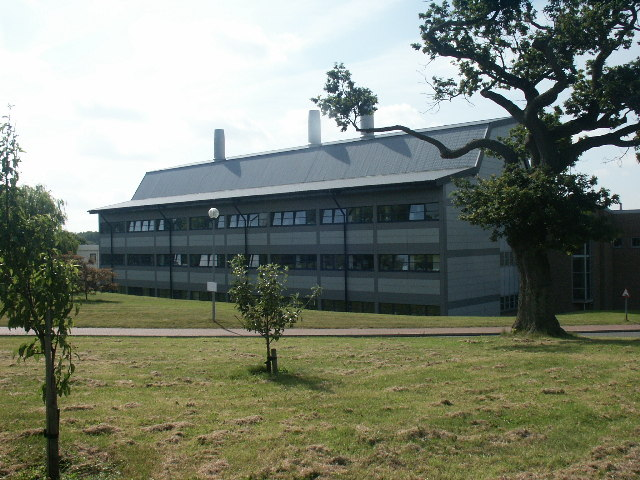 John Innes Centre, Norwich. Part of the Norwich Research Park, which includes the Institute for Food Research and the University of East Anglia; adjacent is the Norfolk & Norwich University Hospital.